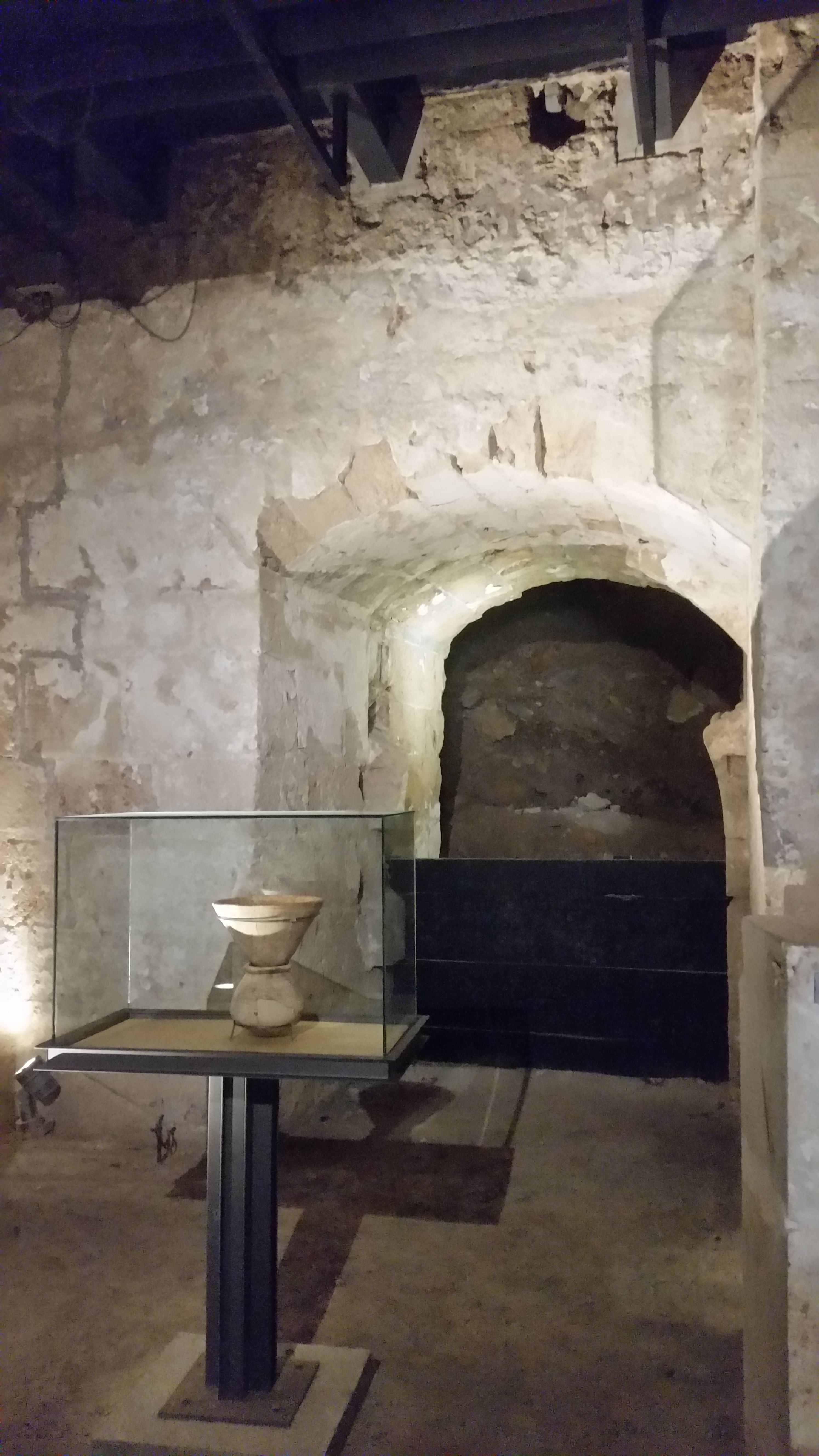 The Knights halls Acre